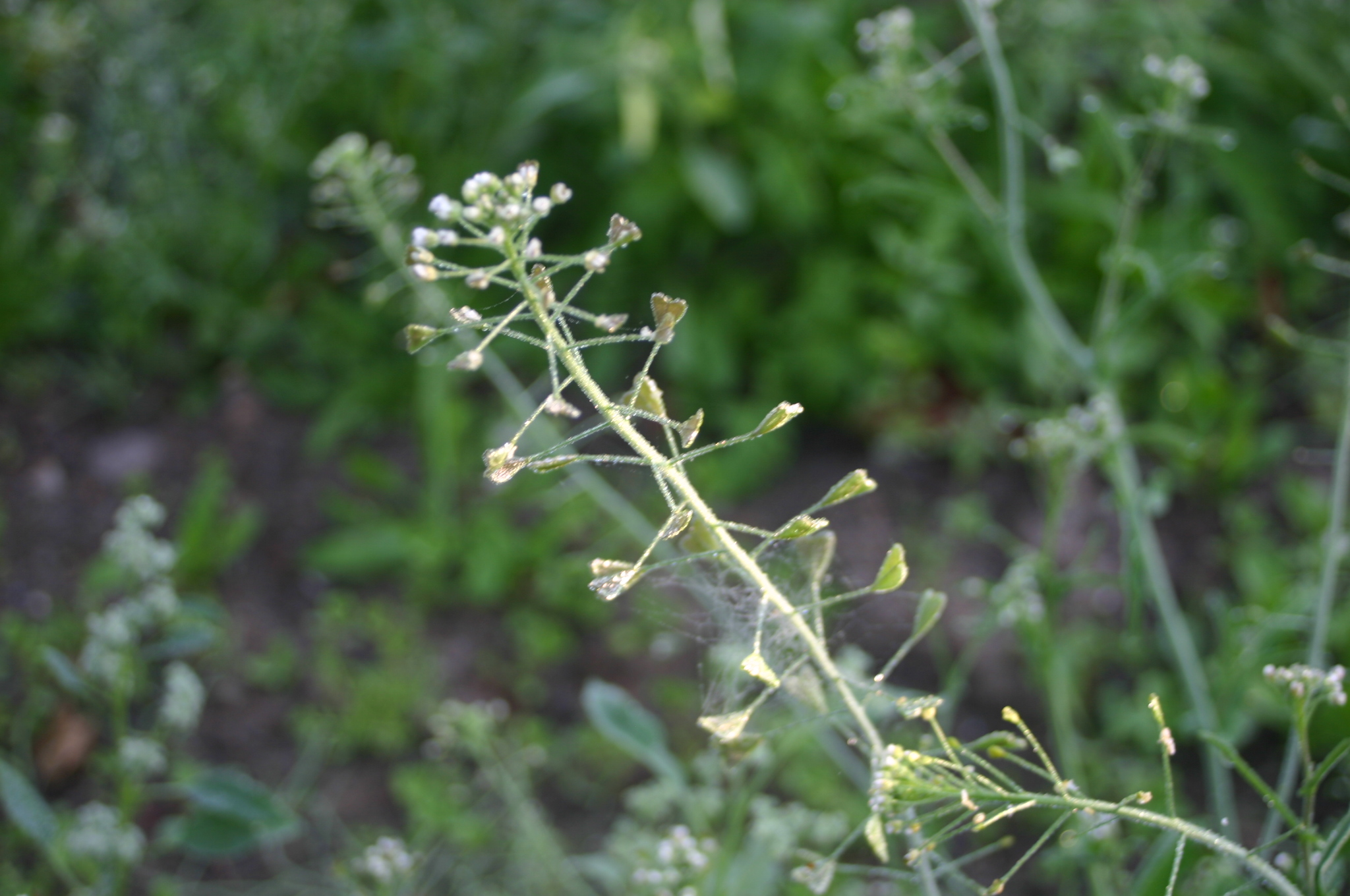 Capsella bursa-pastoris: Flowers and fruits.